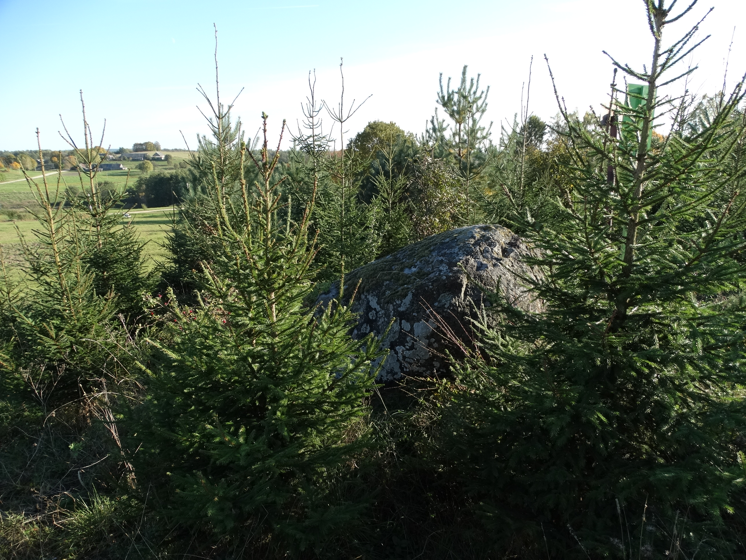 Stone Juozytis, Ringailiai, Kaišiadorys district, Lithuania